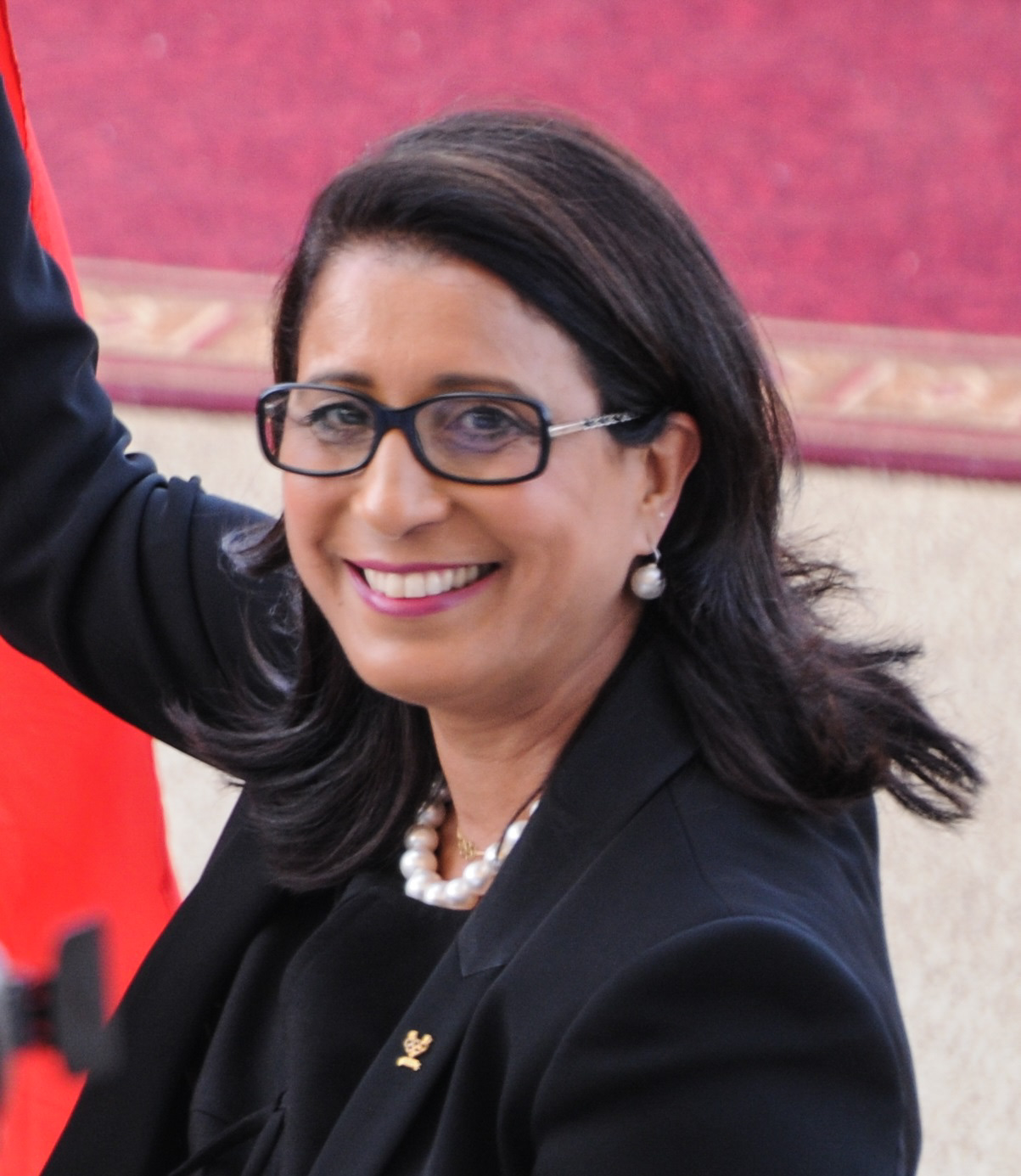 Moroccan former runner Nawal El Moutawakel in Tunis.